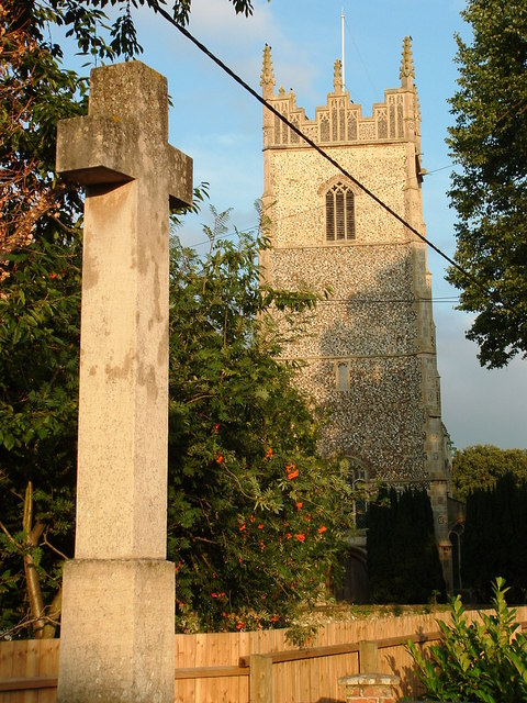 Parish war memorial and west tower of St Andrew's parish church, Northwold, Norfolk, seen from the west